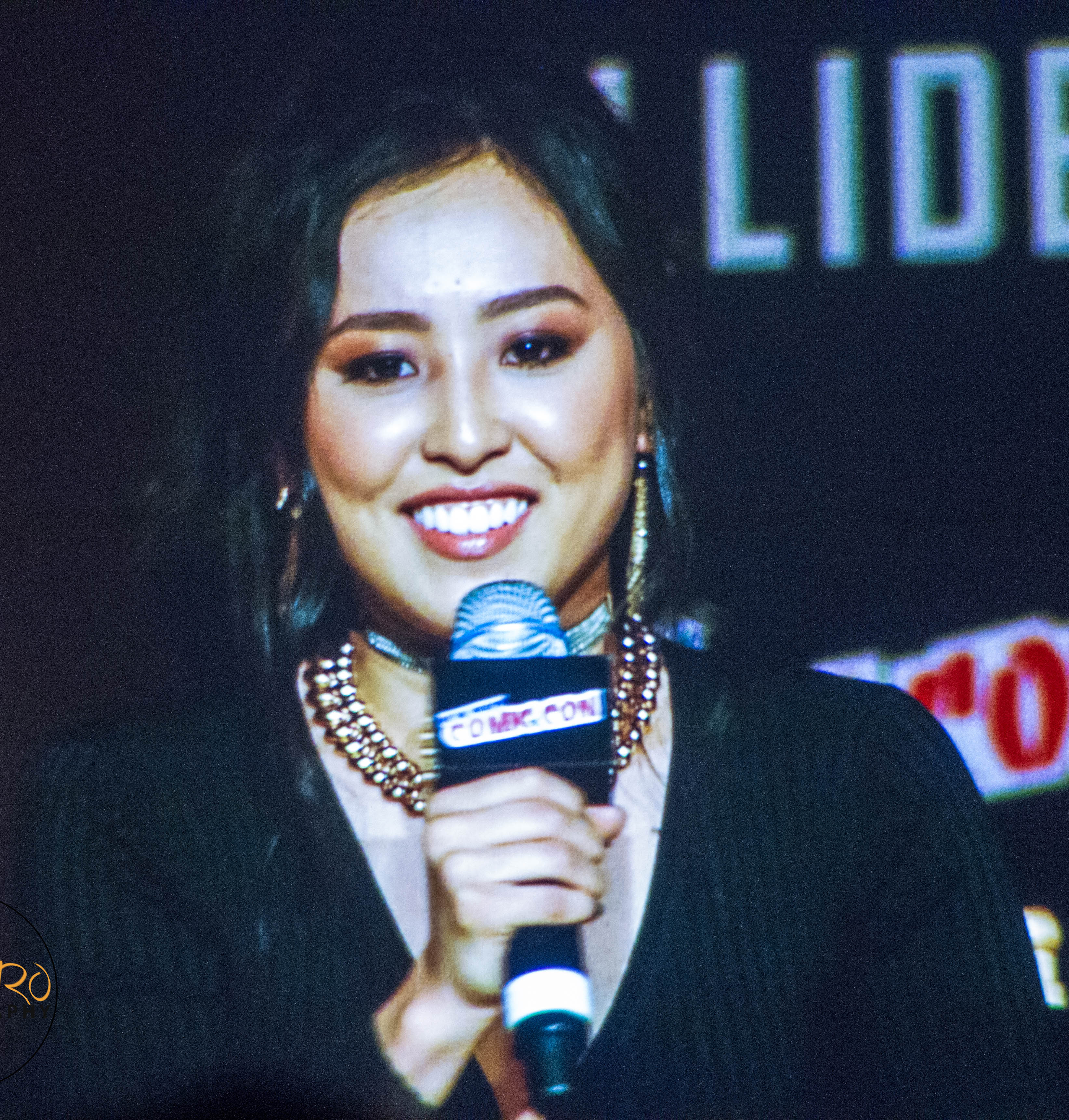 Actress Lyrica Okano speaks as part of the Runaways panel at the 2017 New York Comic Con